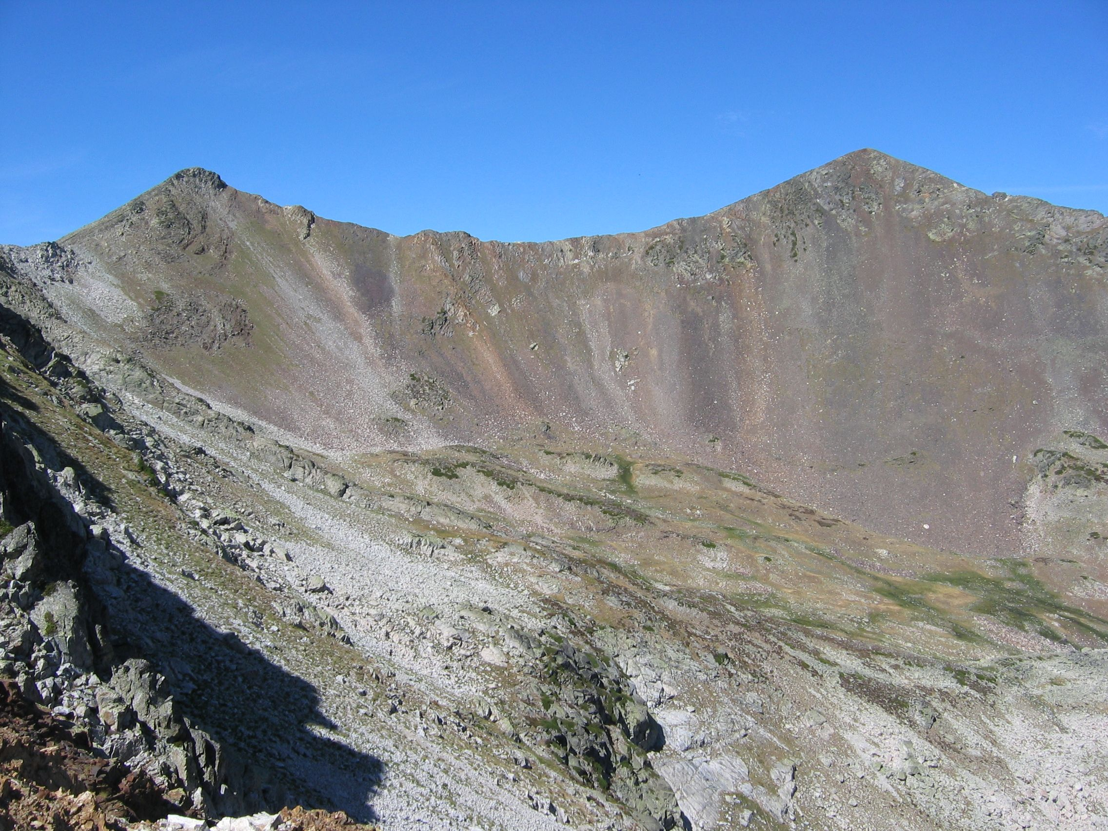 Tres provincias peak (left) and Peña Prieta (right) (Palencia, Castile and León)